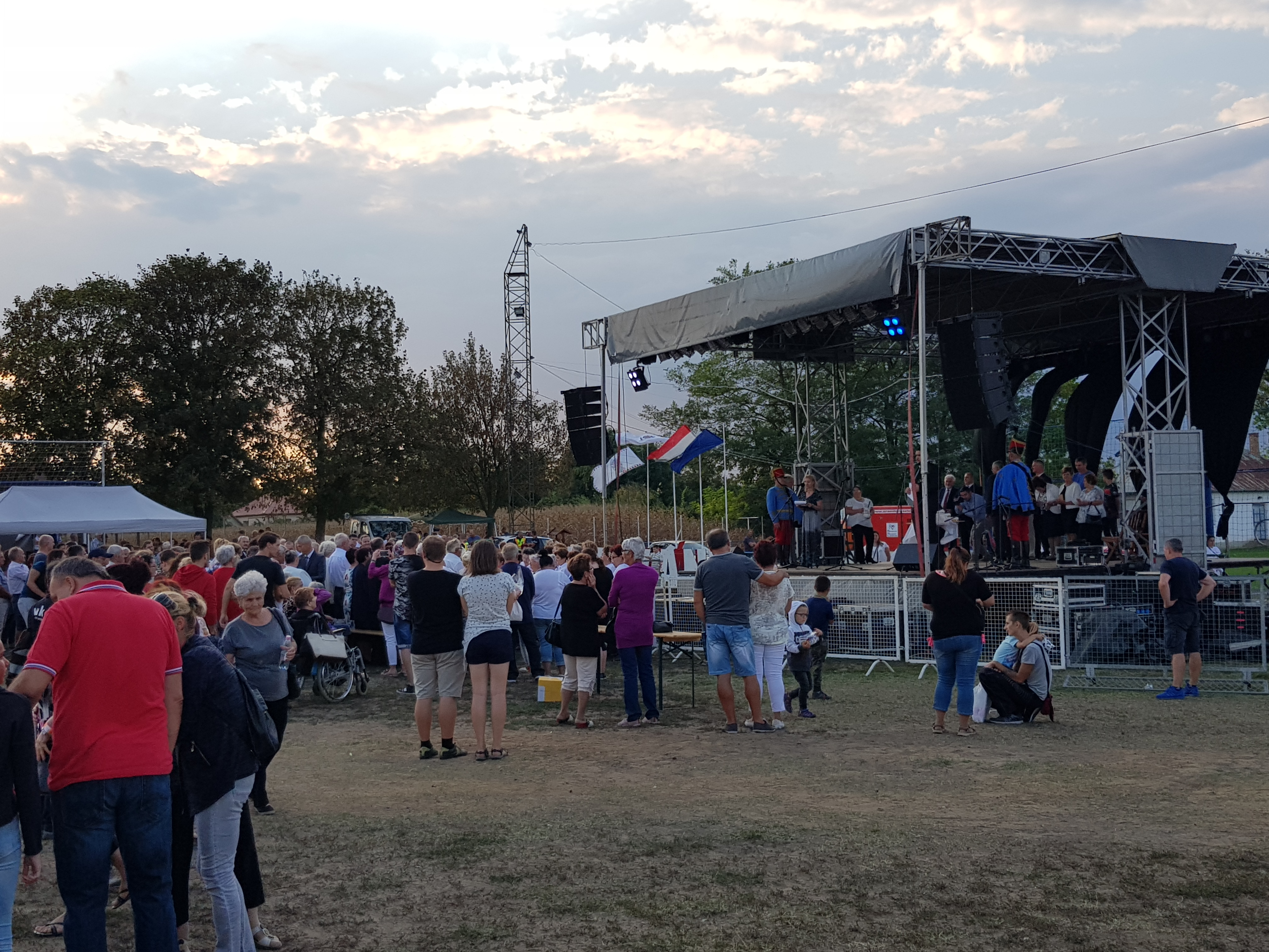 The day of the city in Balkány, 2018